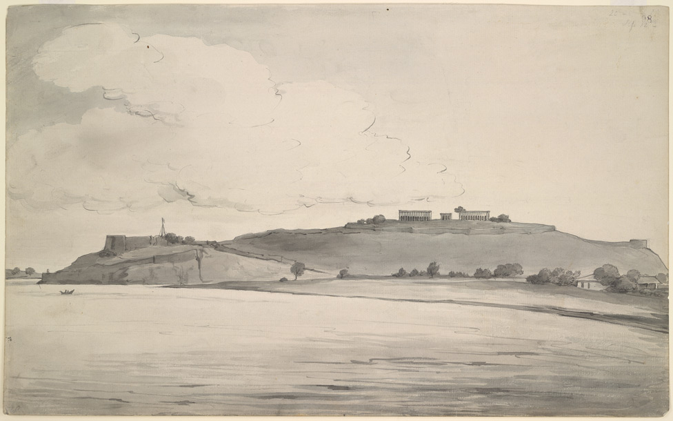 Pen and ink colour painting of The Fort, Chunar (U.P.). 12 September 1803